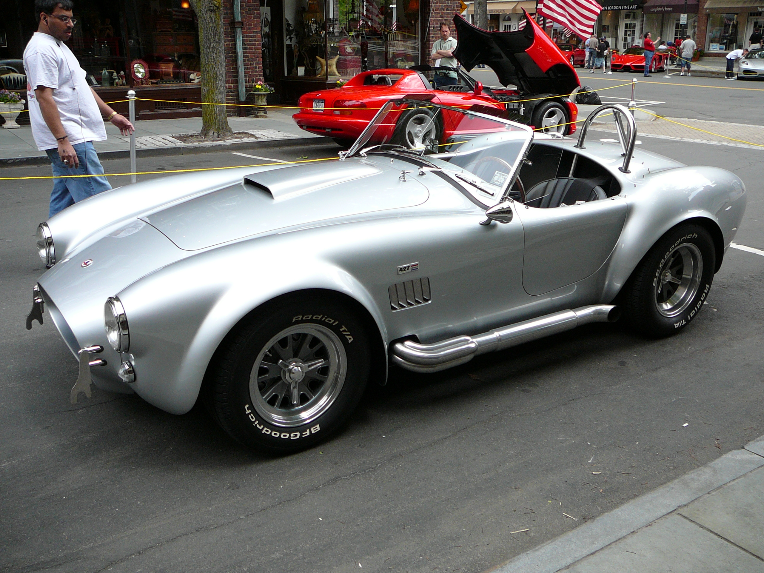 Shelby Superperformance 427/435hp Driveable Chassis (a kit car by Superformance Replicars)